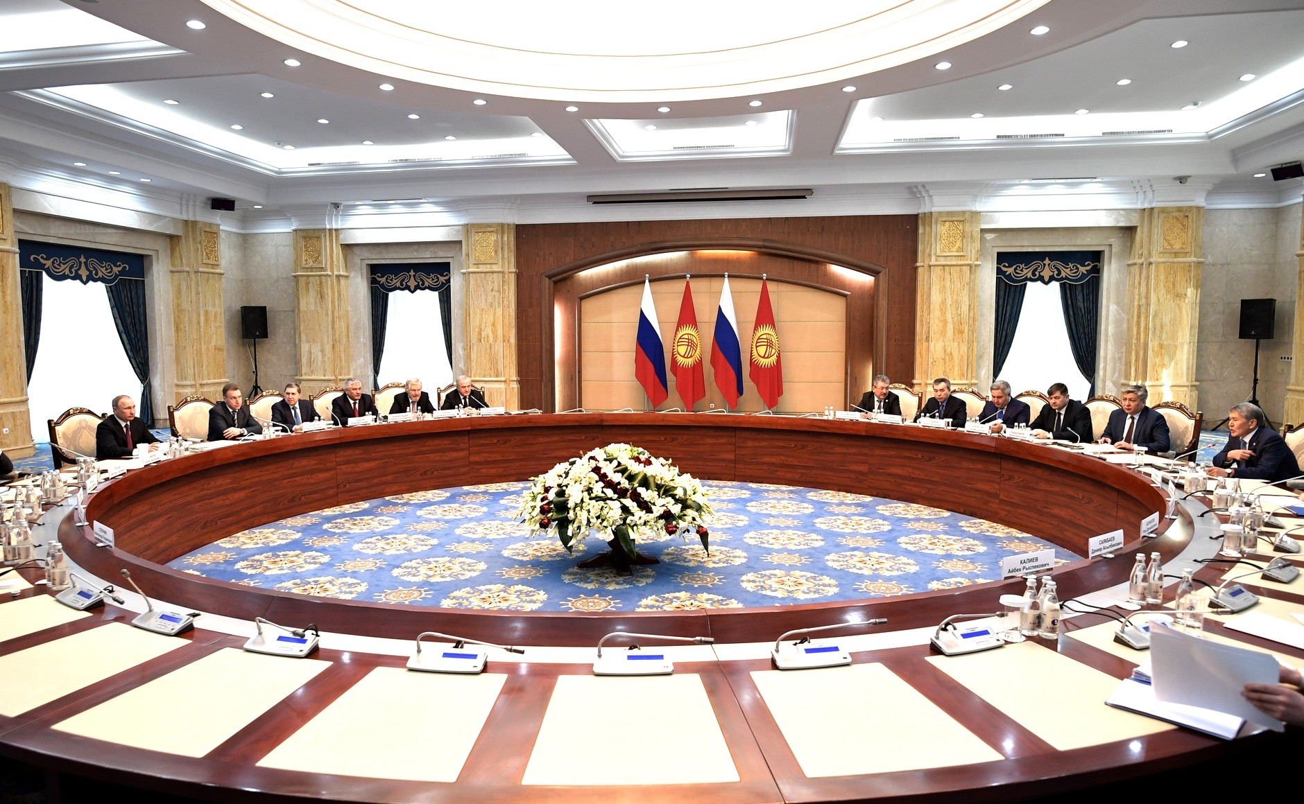 Russian president Vladimir Putin in Kyrgyzstan. February 2017.